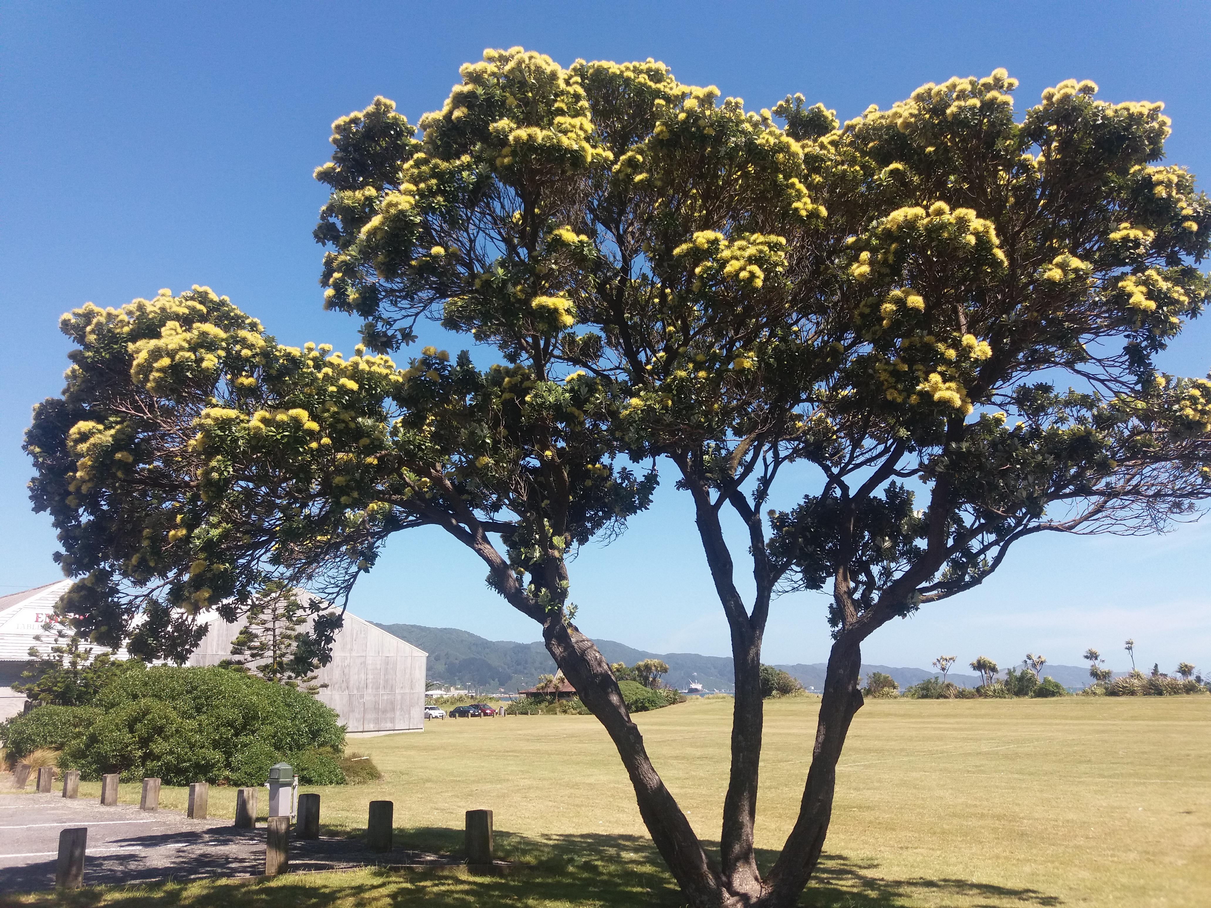 Pōhutukawa (Metrosideros excelsa), in flower, in Petone, Wellington, New Zealand. This is the variety "Aurea", a yellow-flowering cultivar of M. excelsa, a variant that occurs naturally on Mōtiti Island, Bay of Plenty, New Zealand